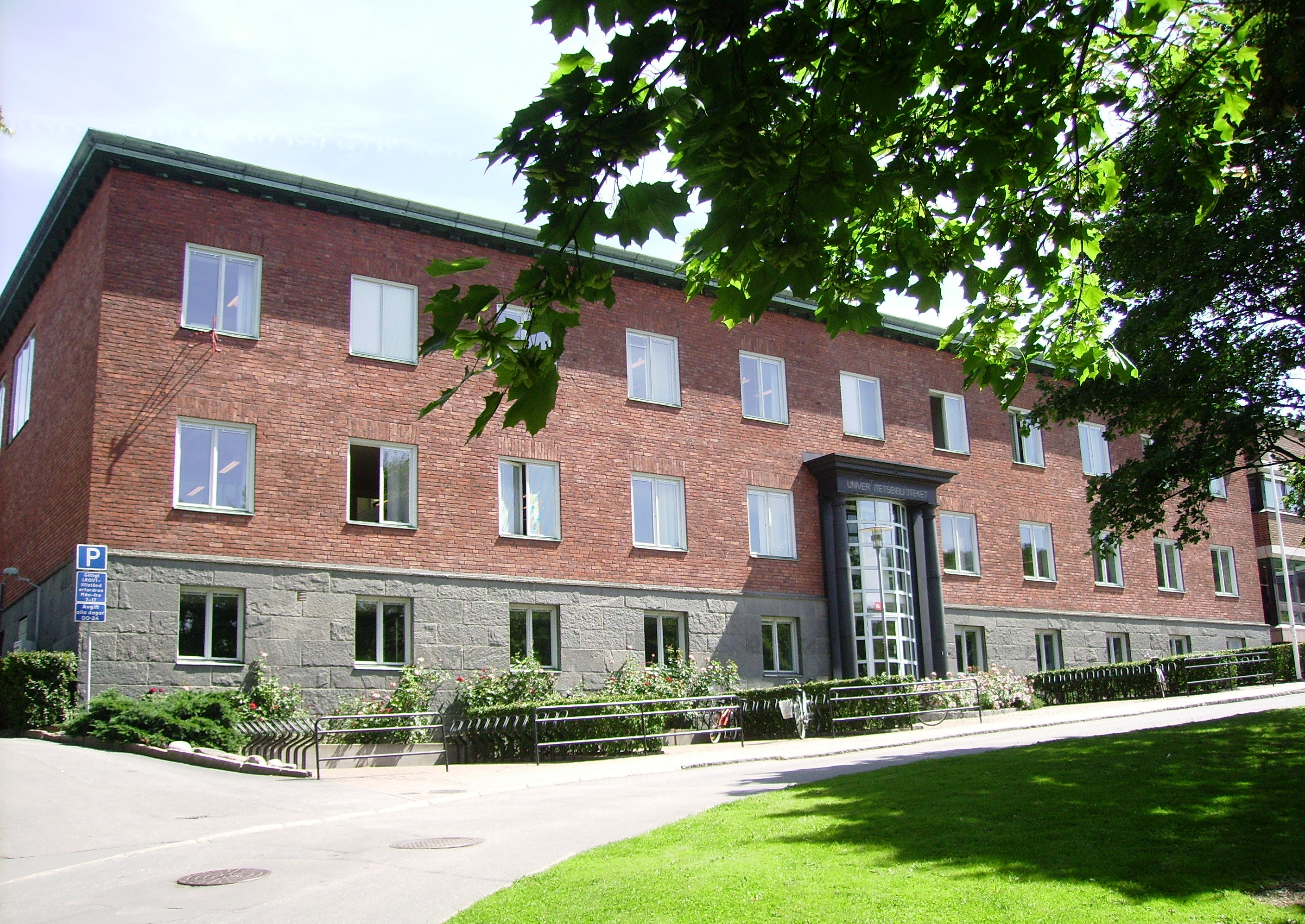 Picture of Göteborgs universitetsbibliotek, university library in Gothenburg